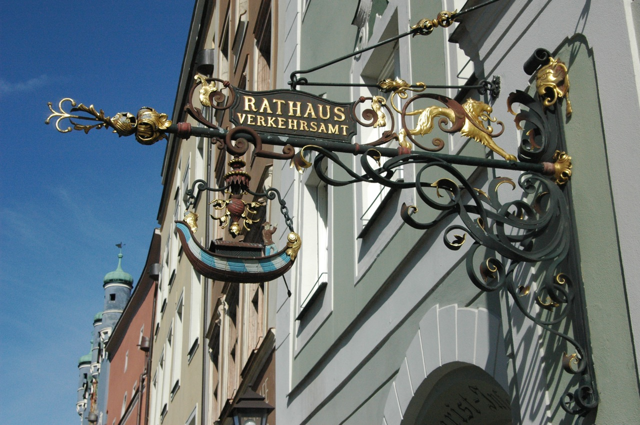 Burghausen, Bavaria: Town Hall on the main square of the old part of town